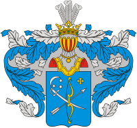 Davydov family Coat of Arms